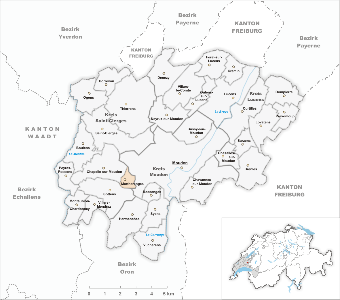 Municipality Martherenges